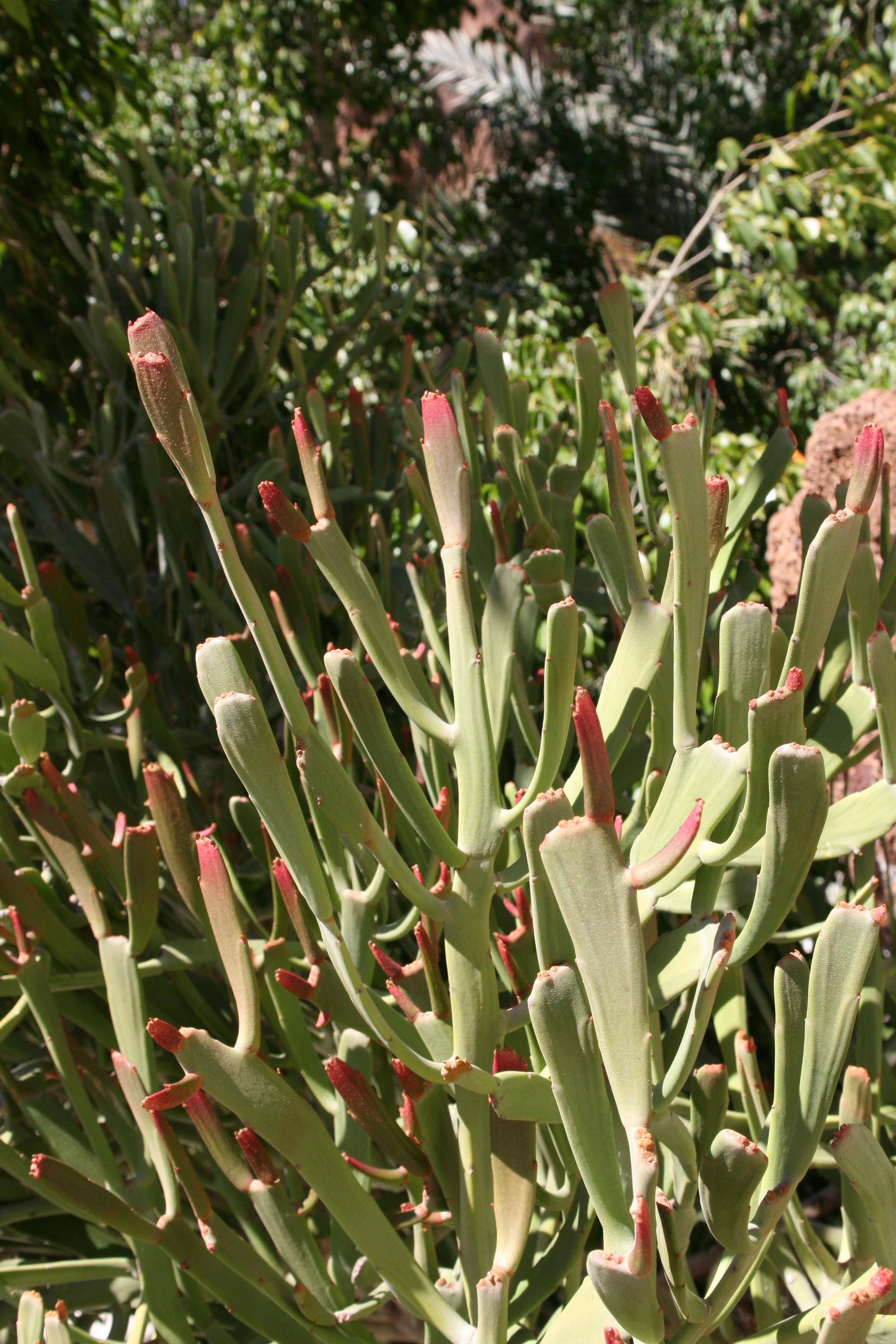 Euphorbia enterophora grown in Museo Lagomar, Calle Los Loros in Nazaret, Teguise, Lanzarote, Canary Islands.